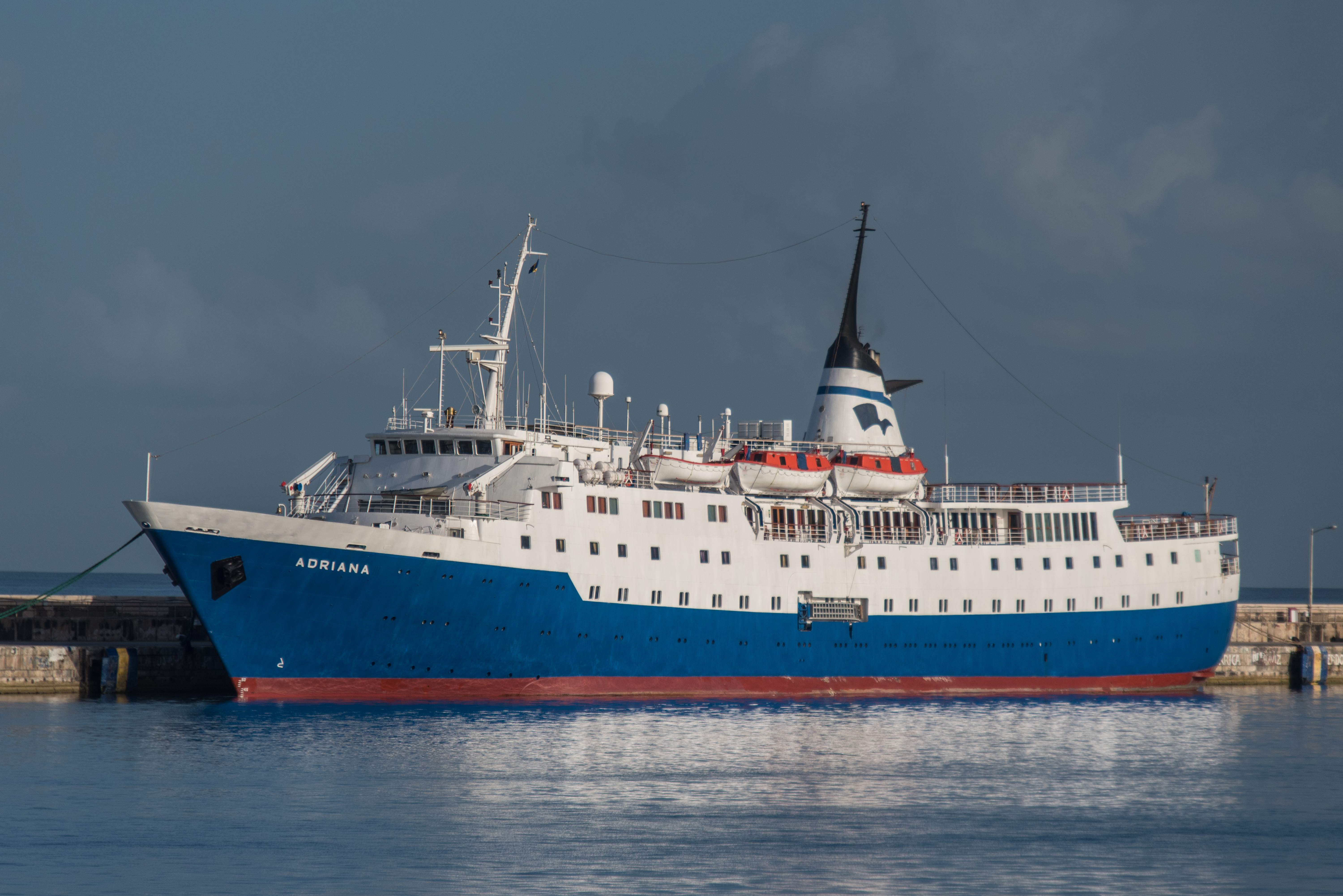 Small cruise ship, ADRIANA - IMO 7118404, in Port of Bridgetown, Barbados on April 8, 2017.